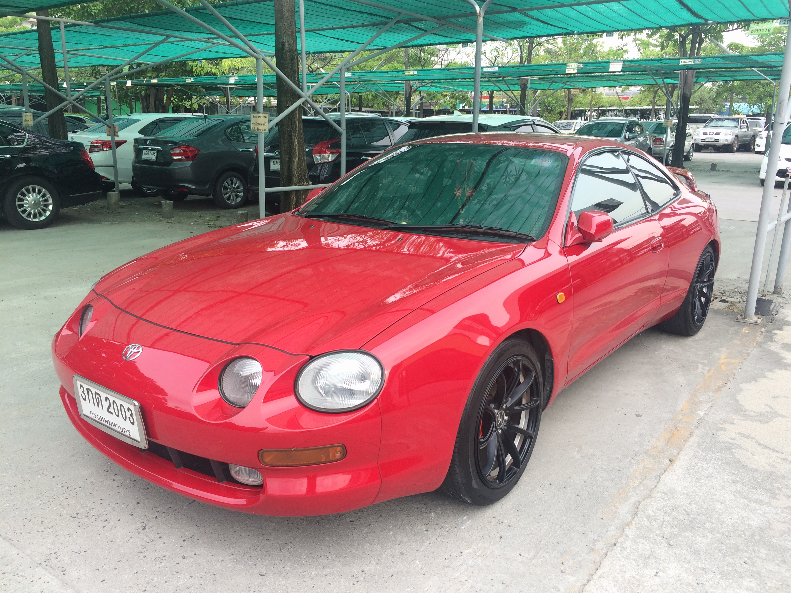 1994-1995 Toyota Celica (ST204) Coupé (25-06-2018) in Bangkok Thailand.